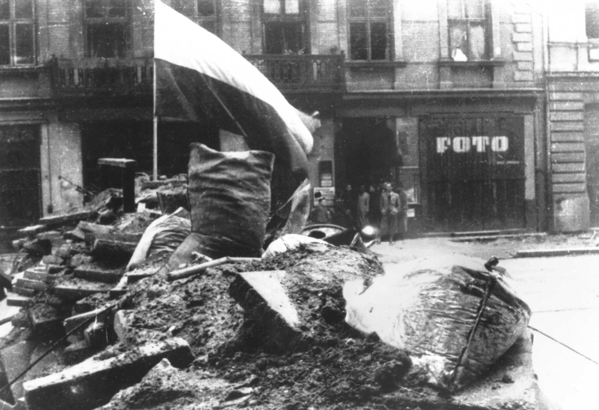 WarsawUprising: Barricade with a flag at Marszałkowska street.